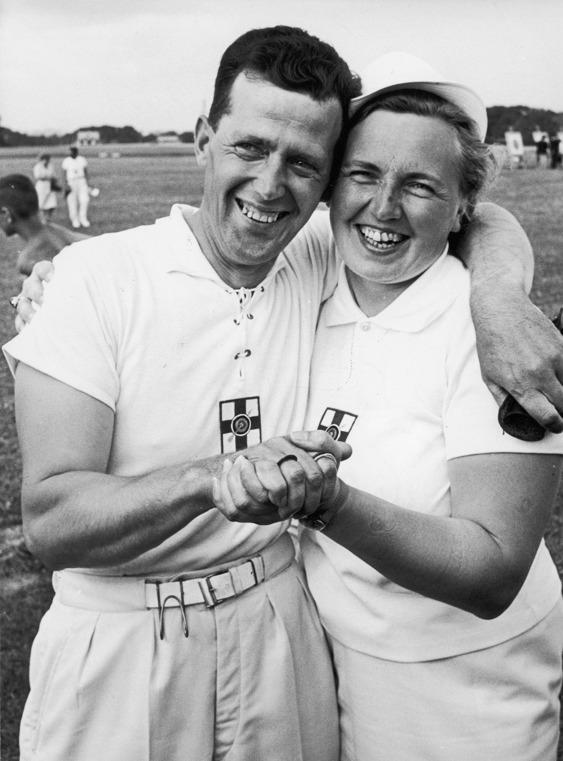 Photograph of the Finnish archers Matti Haikonen and Maire Lindholm in Västerås.